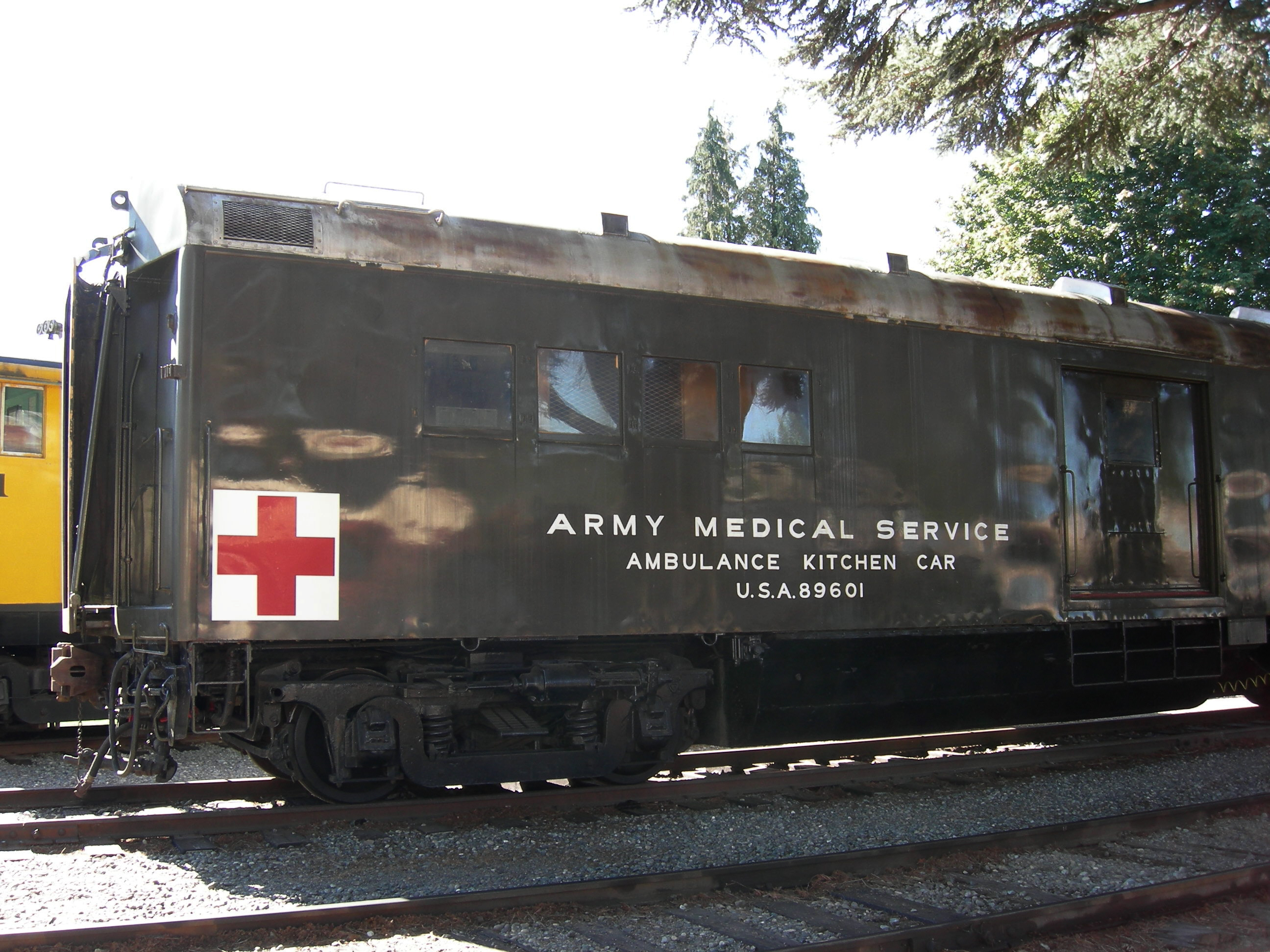 U.S. Army Medical Service ambulance kitchen car on display at Snoqualmie Depot, Snoqualmie, Washington, USA.